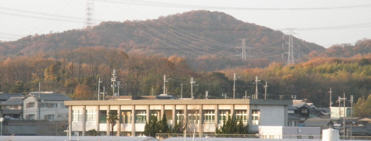 Bessho elementary school Shimoishino Branch school ruins